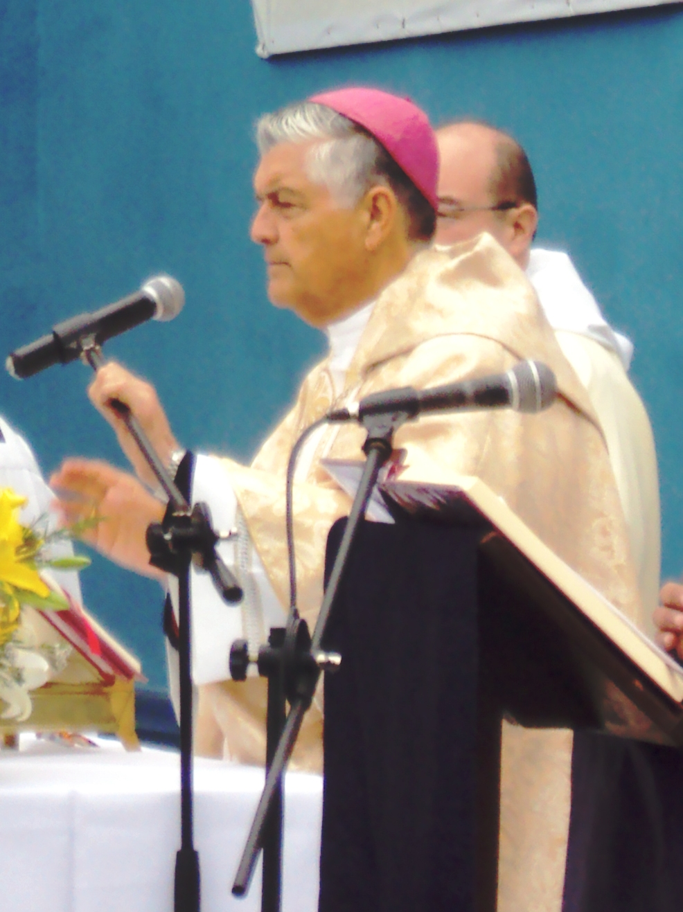 Bishop Mons. Salvador Piñeiro, during mass before Lord of Sanctuary of Saint Catherine Procession. Lima, 2010